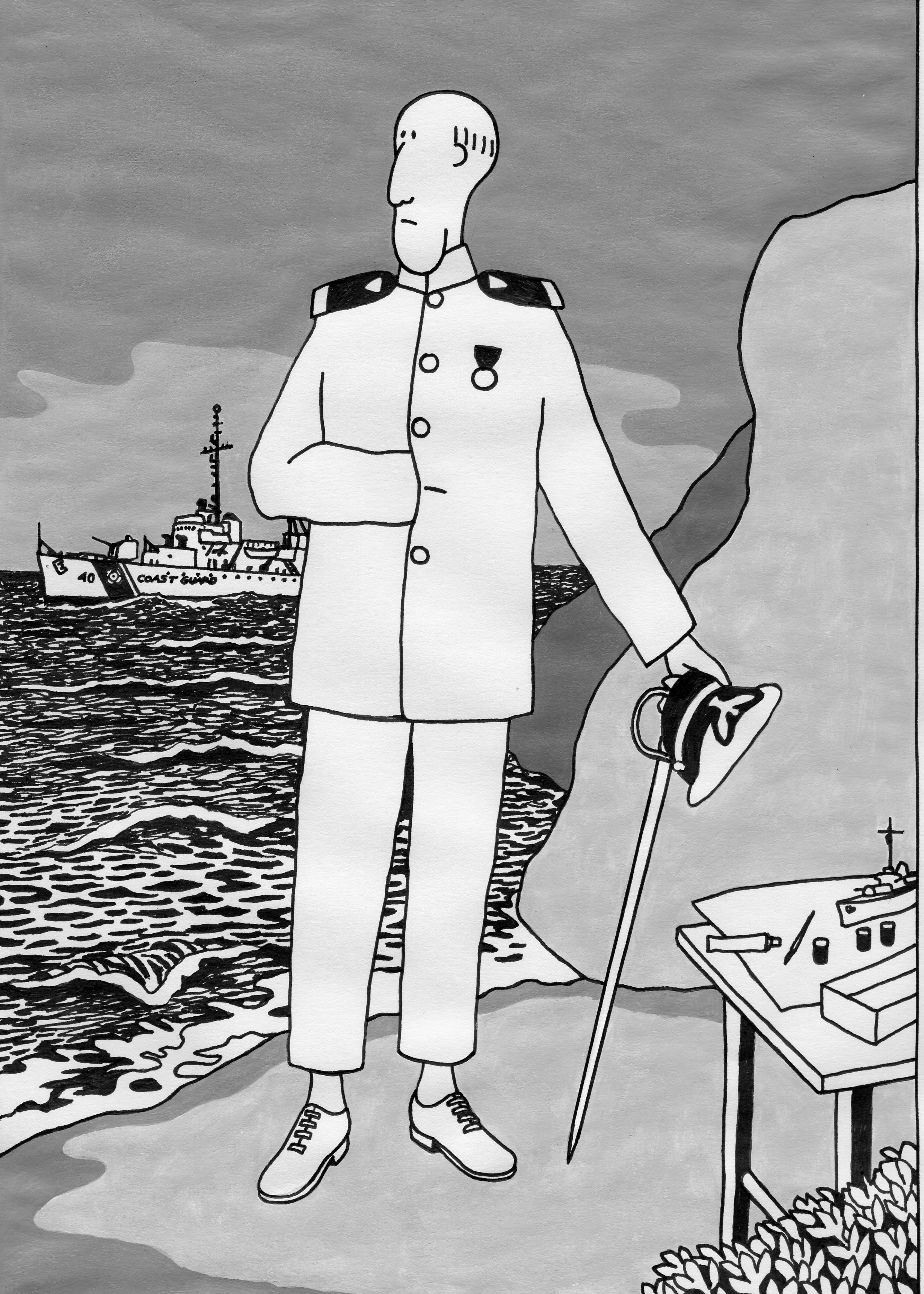 Portrait of Ron Marlett's cartoon character